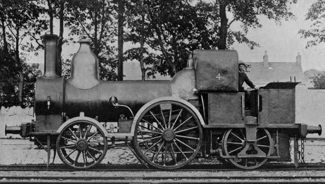 Photograph of W&TR engine No.4.jpg